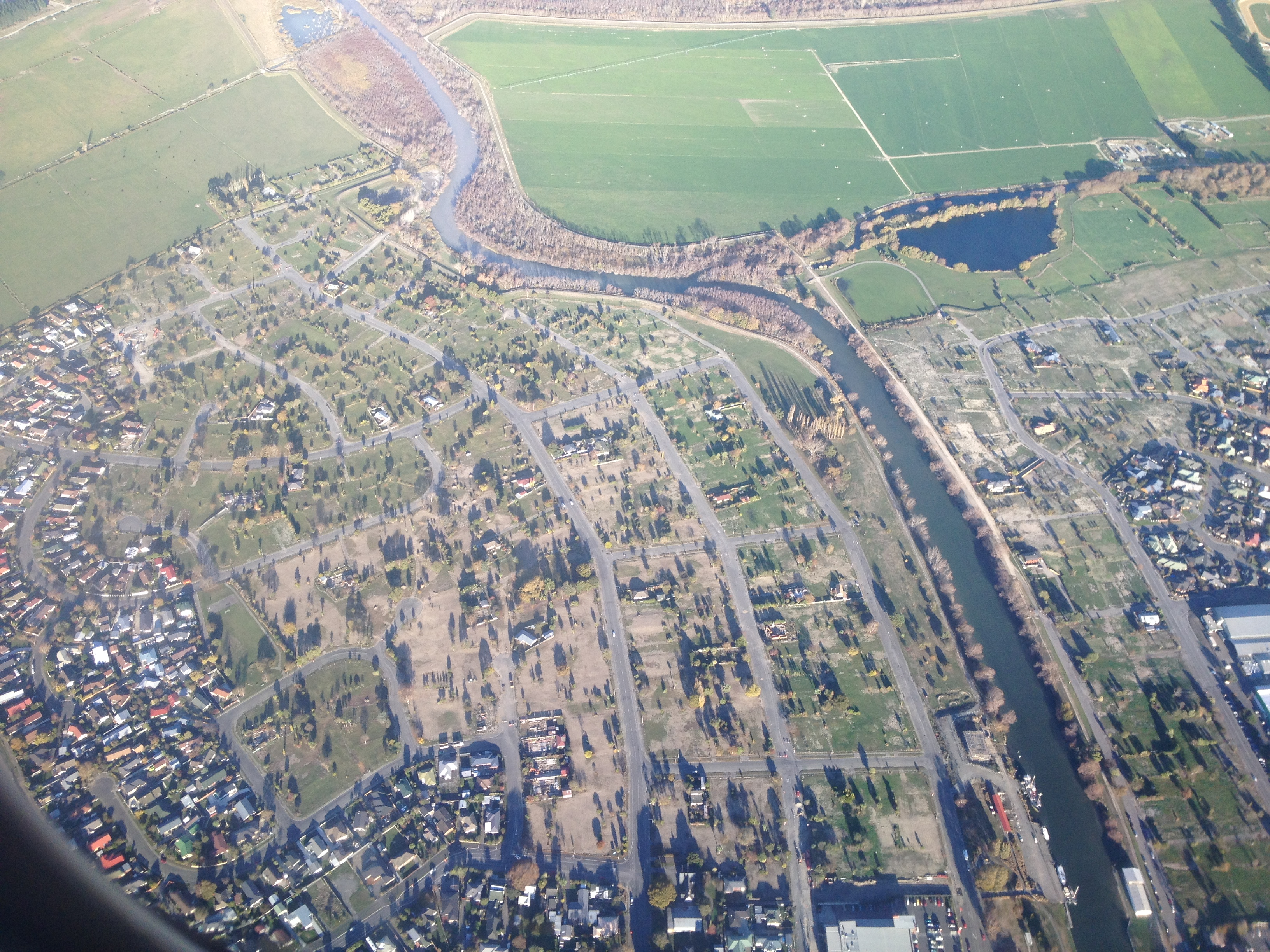 Aerial view of the residential red zone in Kaiapoi in May 2015.